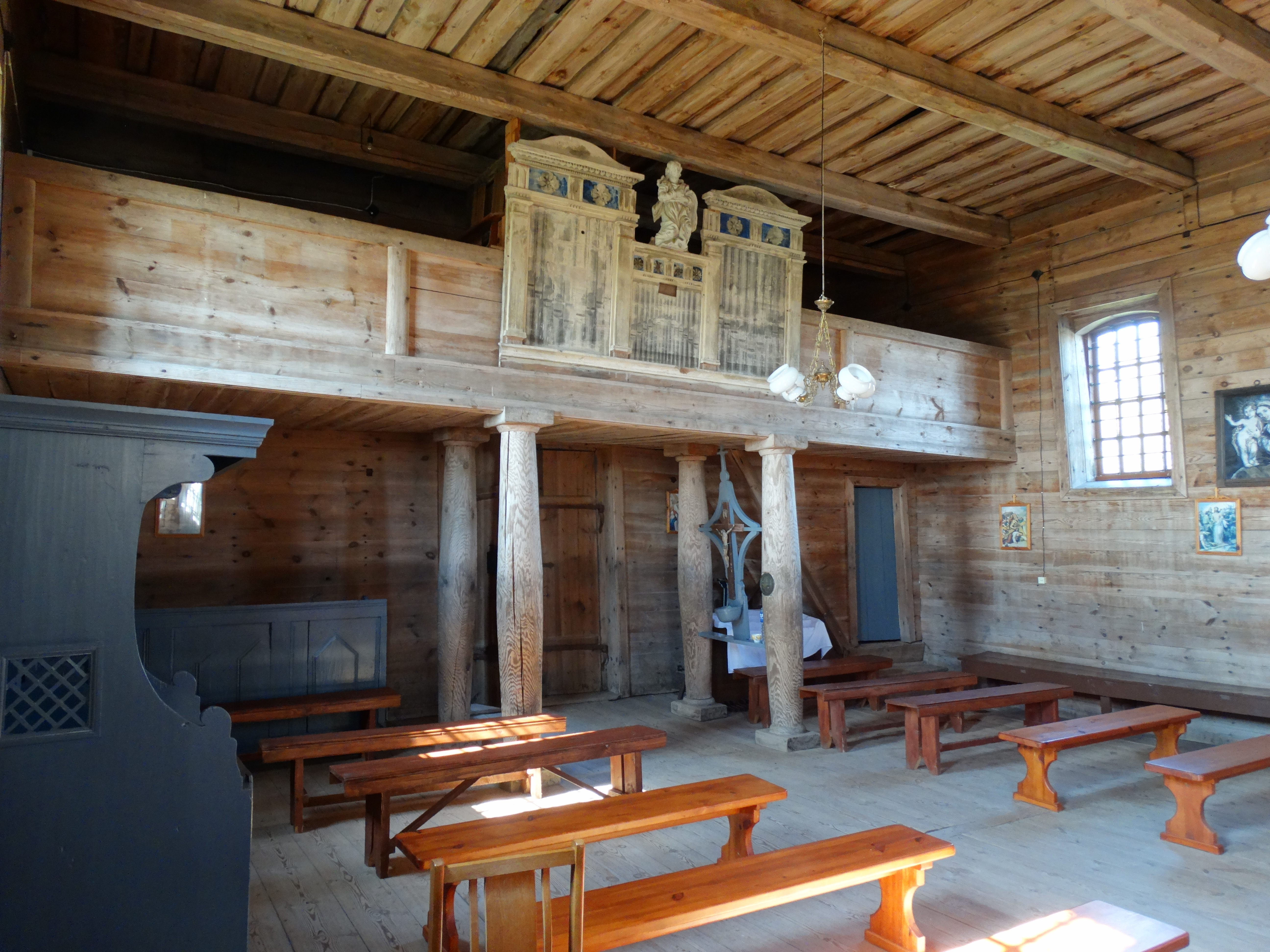 Chapel, Skurbutėnai, Vilnius District, Lithuania